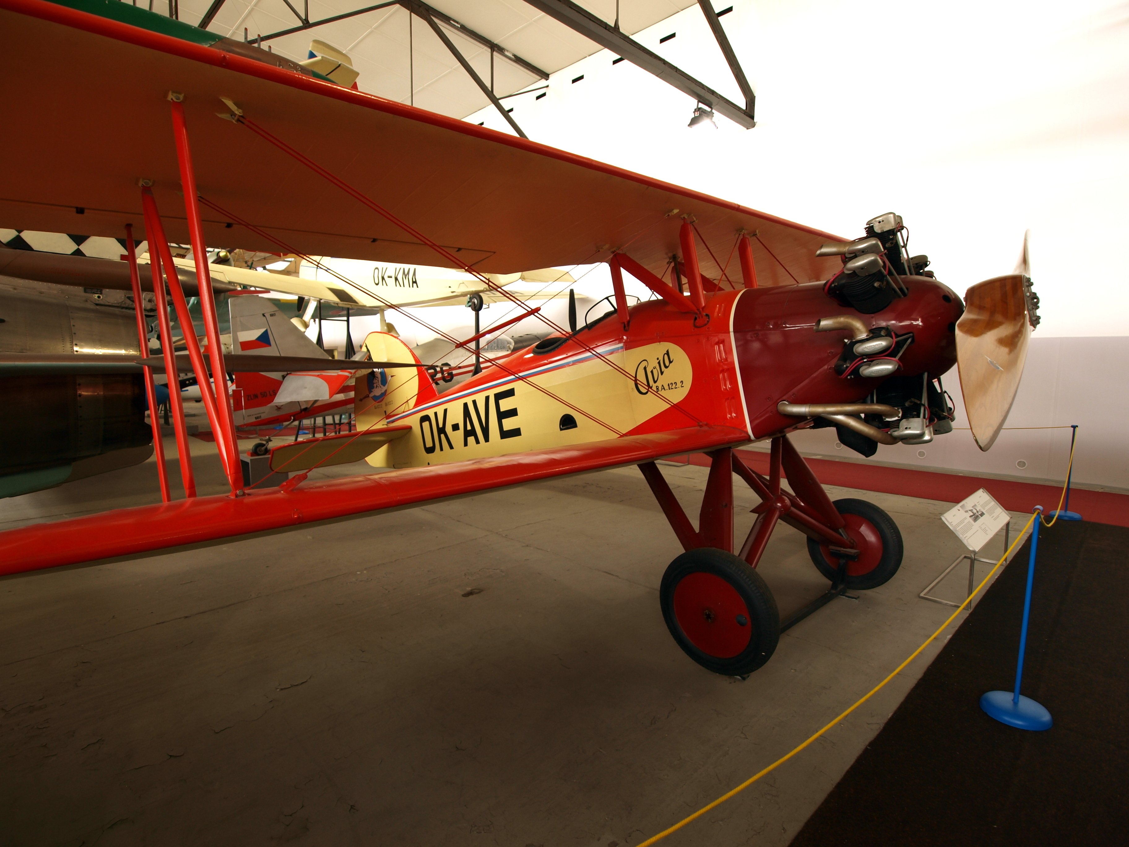 Avia Ba-122 (OK-AVE). Photograph taken without a tripod (was not allowed!).